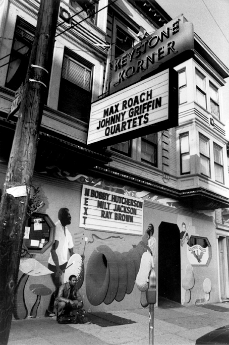 Exterior view of Keystone Korner, San Francisco jazz club at 750 Vallejo in North Beach. Saxophonist Odean Pope of the Max Roach Quartet poses in front. 11/16/82. photo: Brian McMillen /